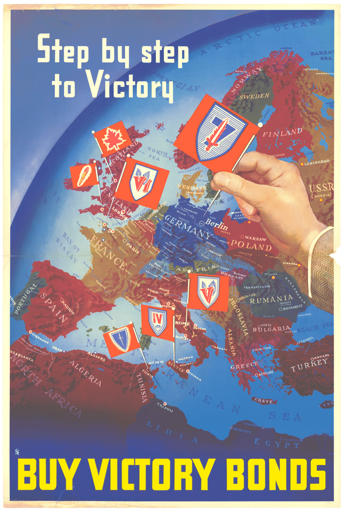 "Step by Step to Victory … Buy Victory Bonds"; poster depicts a map, with small flags placed on the countries which have been liberated from the Germans. A large hand prepares to place a flag on Germany.